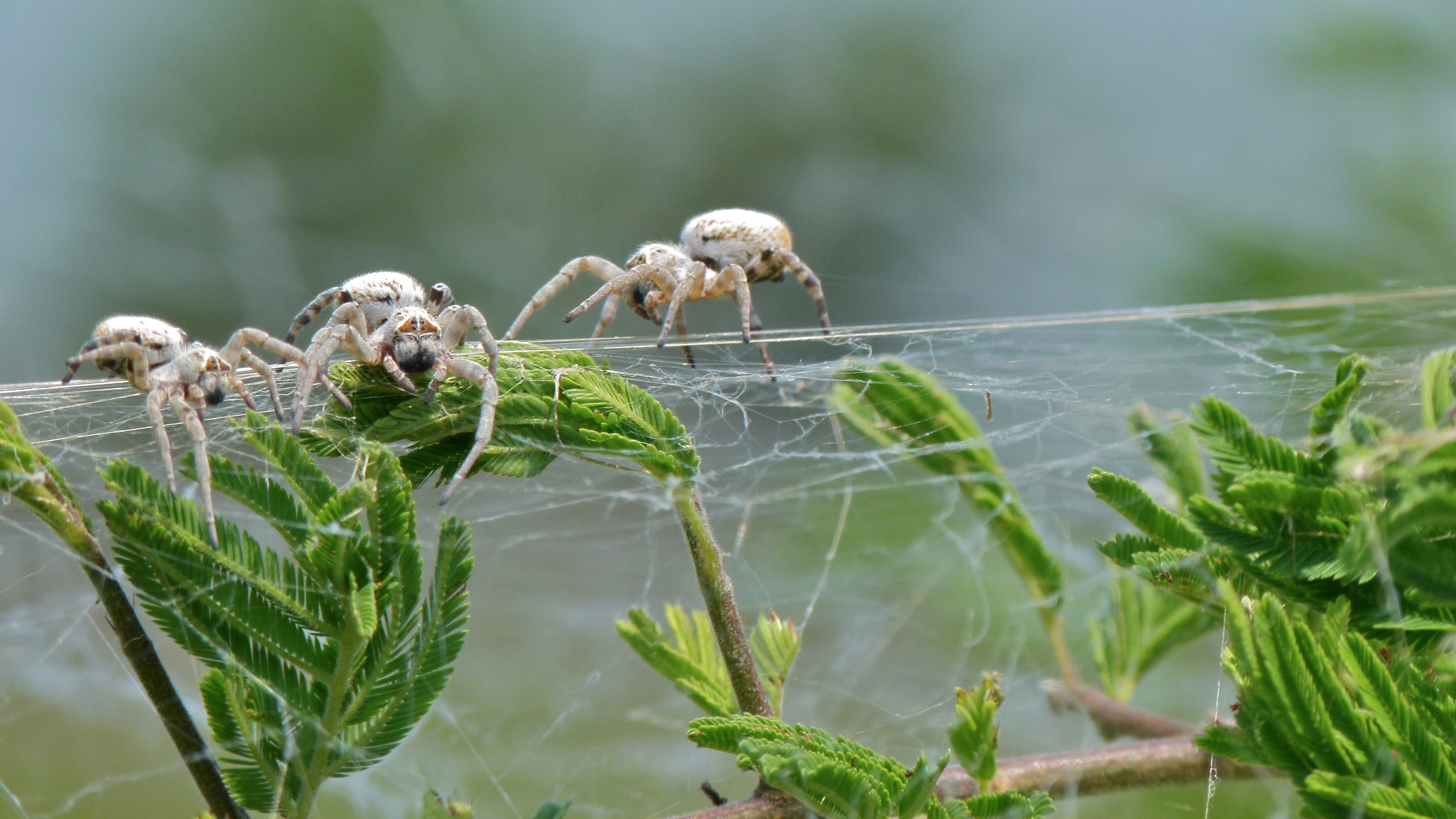 African social spiders perched on their web beside the S37 Trichardt Road in the central Kruger National Park, Mpumalanga, South Africa